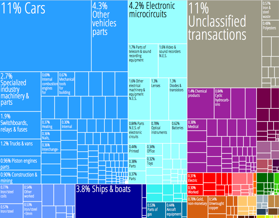 Graphical depiction of the country's product exports in 28 color coded categories. Each colored box represents one product and its size is proportional to the share of the country's total exports that the product represents.